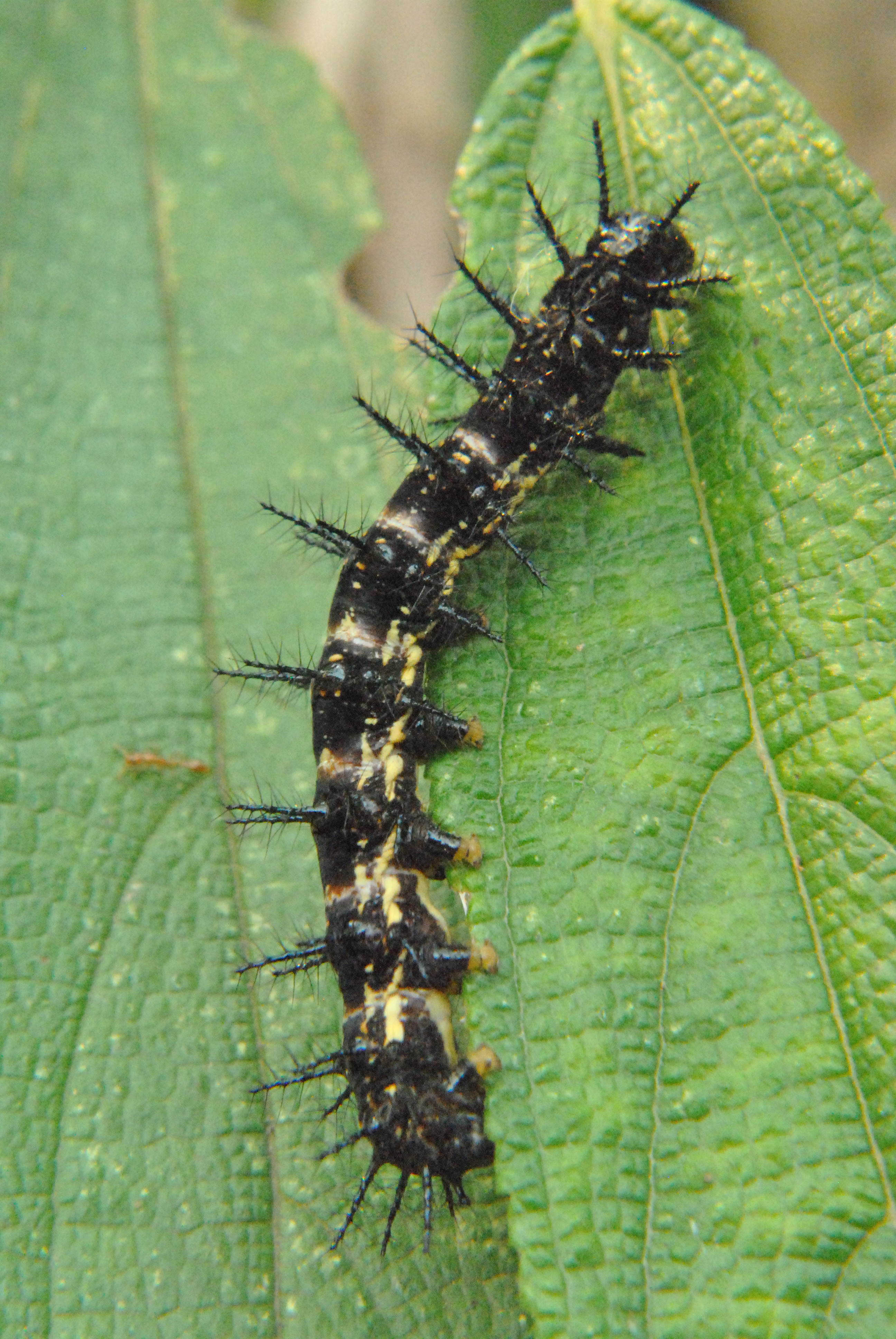 This image was taken in the project Wiki Loves Butterfly.The larva of Yellow Coster Acraea issoria found in Jayantyi, Buxa Tiger Reserve,West Bengal, India.